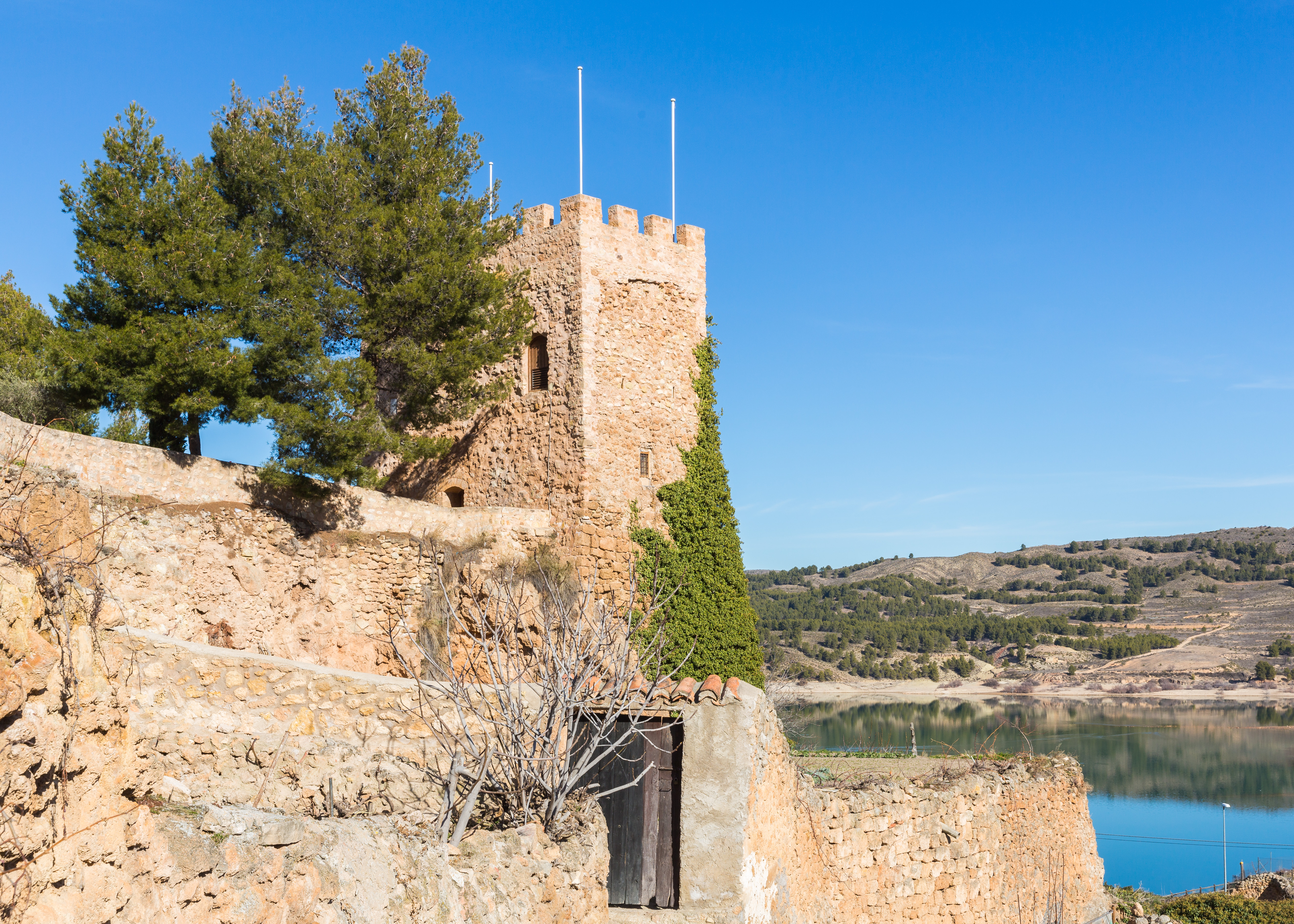 Tower of Nuévalos, Zaragoza, Spain